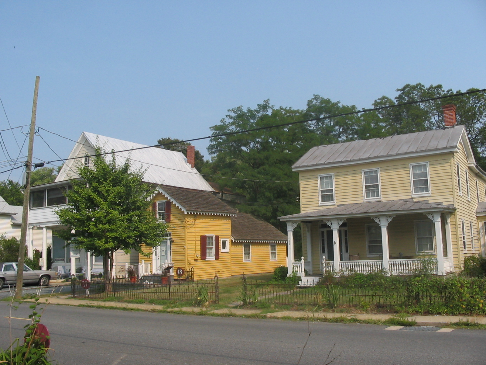 Stevensville, Maryland, August, 2007